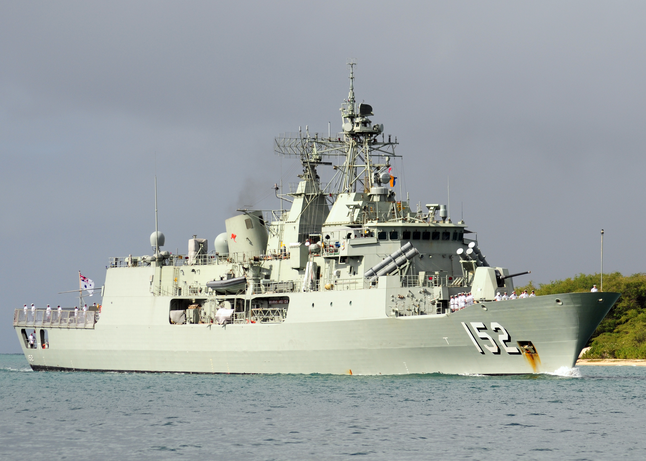 PEARL HARBOR (July 31, 2010) The Australian Anzac-class frigate HMAS Warramunga (FFGH 152) returns to Joint Base Pearl Harbor-Hickam after participating in Rim of the Pacific (RIMPAC) 2010 exercises. RIMPAC is a biennial, multinational exercise designed to strengthen regional partnerships and improve multinational interoperability. (U.S. Navy photo by Mass Communication Specialist 2nd Class Class Jon Dasbach/Released)